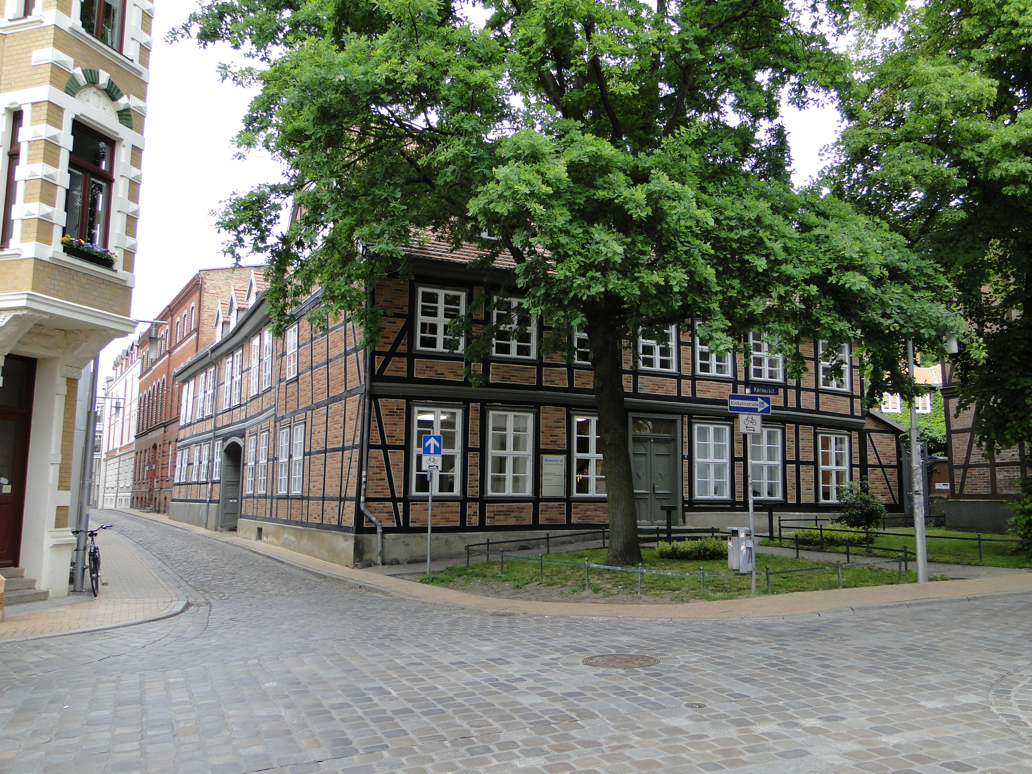 Cultural heritage monument in Schwerin, Mecklenburg-Vorpommern, Germany